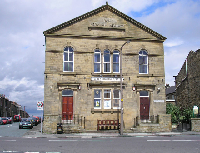 Eccleshill Mechanics' Institute Built in 1868 when Eccleshill was still an independent township. For many years it was used as a storage area by Bradford Council but is now a thriving community centre.